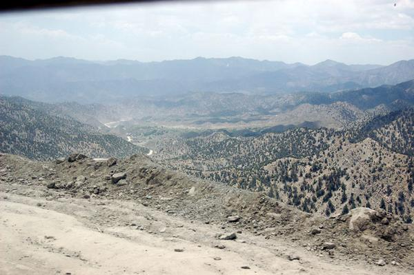 A photo looking south toward Khost from the top of the Khost-Gardez Pass in Paktya Province, Afghanistan. Photo taken May 10, 2007.